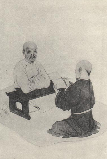 Huang Yujian, scholar of the Qing Dynasty.